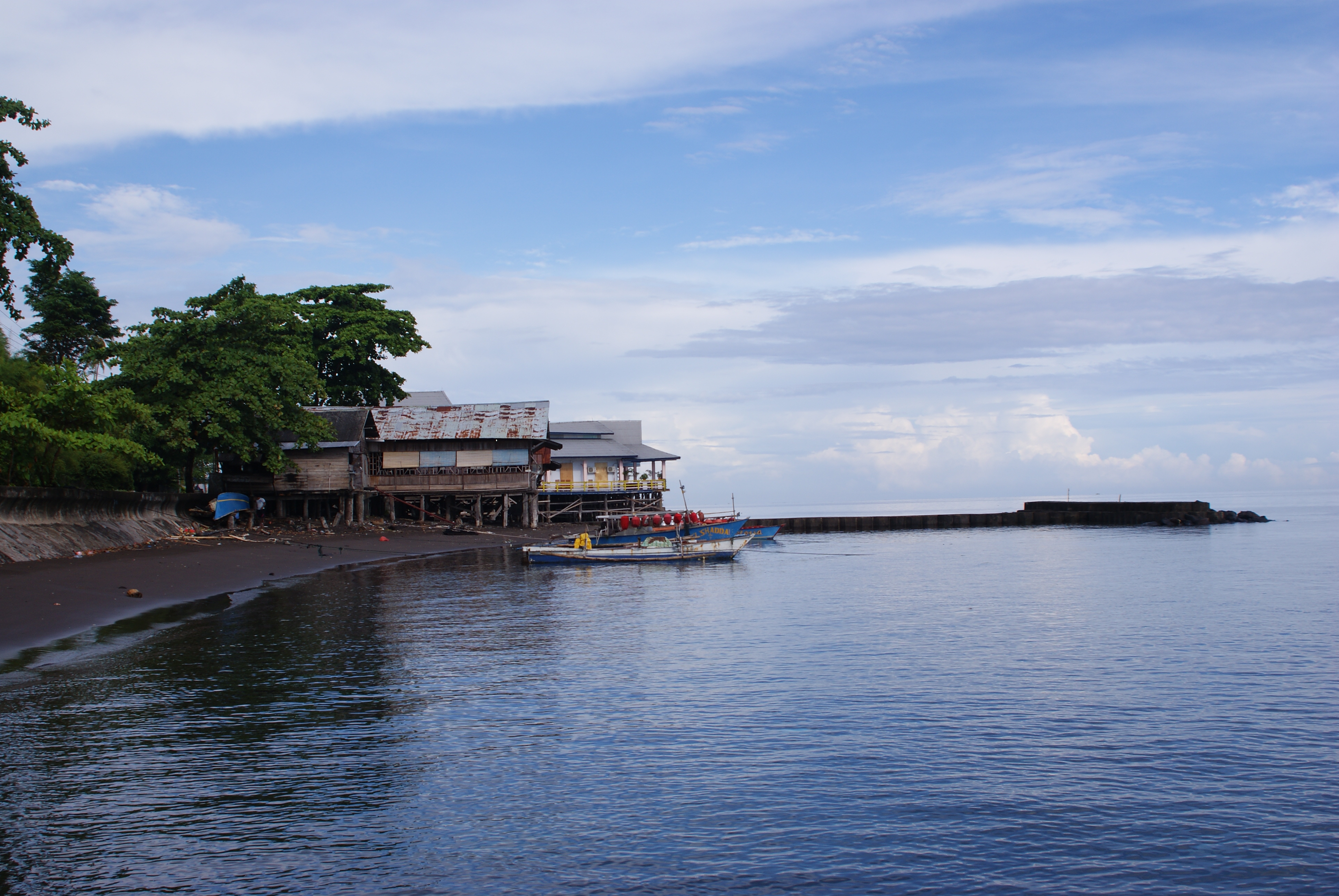 Kalasey Beach, Manado, Indonesia